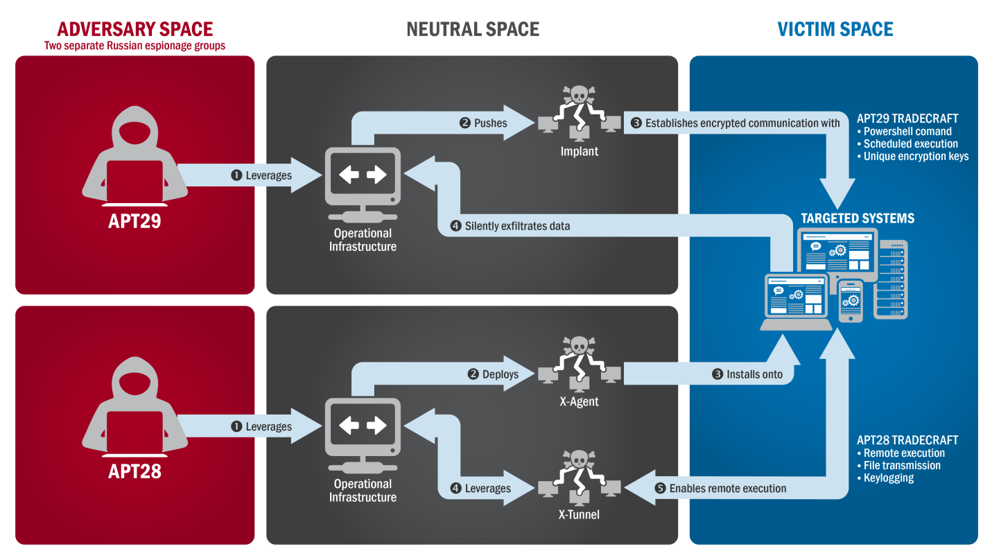 Diagram from US-CERT's report on APT28 and APT29 (aka GRIZZLY STEPPE) Description by source: "The tactics and techniques used by APT29 and APT 28 to conduct cyber intrusions against target systems"